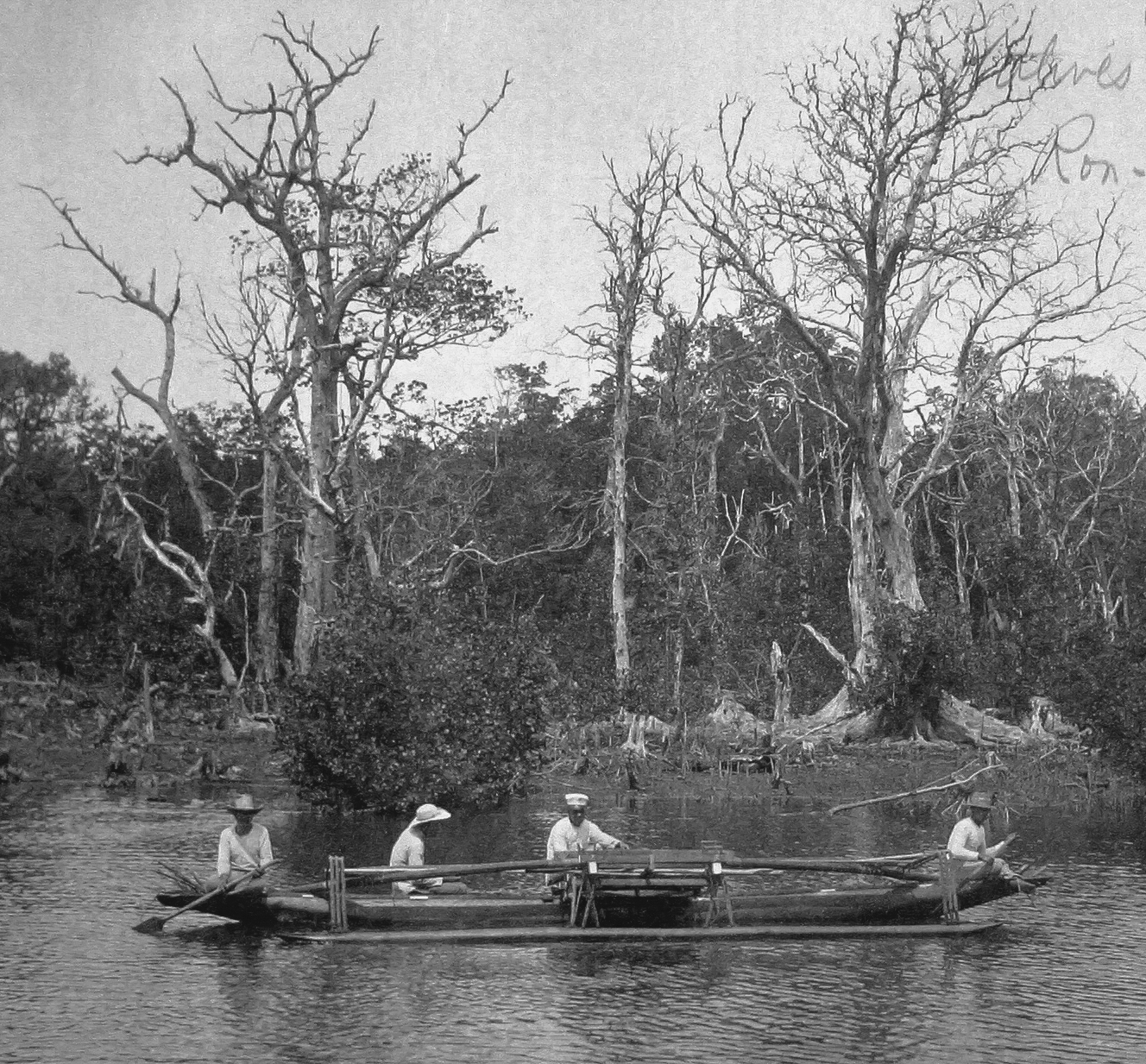 South Sea cruise 1899-1900, Caroline Chain, Kite Harbor, Ponape, natives and canoe, Ron-Kite Village. Note that this image is cropped and tones rebalanced.